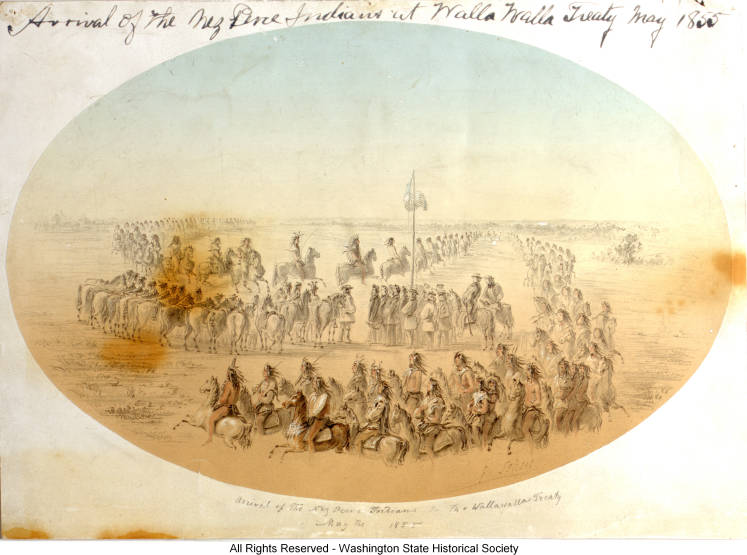 Scene of the Nez Perce arriving for the Walla Walla Treaty Council. Isaac Stevens stands with a group of other Euro-Americans at the center of at the scene. To the left of them, a group of Indians stands next to their horses. The Nez Perce are riding in a long curving line around the central group.